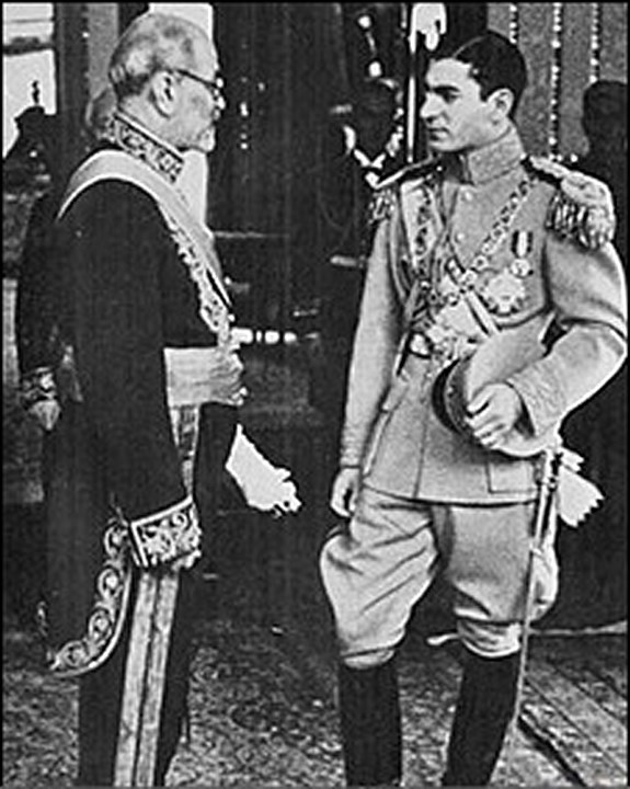 Mohammad Reza Pahlavi and Mohammad Ali Foroughi